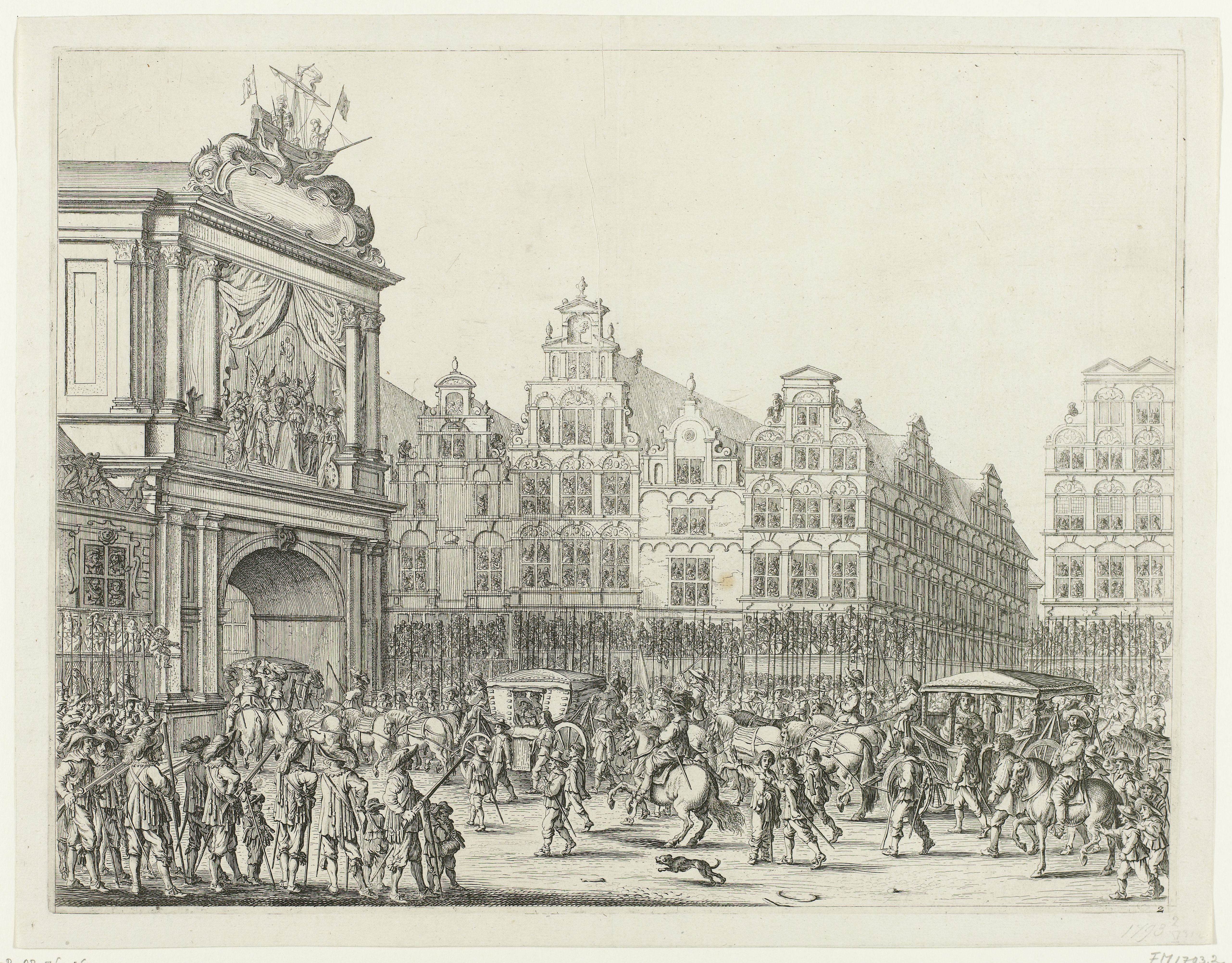 Arrival of Maria de’ Medici in Amsterdam, August 31st, 1638, etching and engraving by Salomon Savery